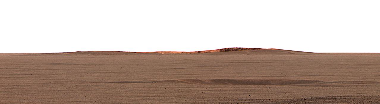 This image taken by the Mars Exploration Rover Opportunity's panoramic camera shows the eastern plains that stretch beyond the small crater where the rover landed. In the distance, the rim of a larger crater dubbed "Endurance" can be seen. This color mosaic was taken on the 32nd martian day, or sol, of the rover's mission and spans 20 degrees of the horizon. It was taken while Opportunity was parked at the north end of the outcrop, in front of the rock region dubbed "El Capitan" and facing east. The features seen at the horizon are the near and far rims of "Endurance," the largest crater within about 6 kilometers (4 miles) of the lander. Using orbital data from the Mars Orbiter Camera on NASA's Mars Global Surveyor spacecraft, scientists estimated the crater to be 160 meters (175 yards) in diameter, and about 720 meters (half a mile) away from the lander. The highest point visible on "Endurance" is the highest point on the far wall of the crater; the sun is illuminating the inside of the far wall. Between the location where the image was taken at "El Capitan" and "Endurance" are the flat, smooth Meridiani plains, which scientists believe are blanketed in the iron-bearing mineral called hematite. The dark horizontal feature near the bottom of the picture is a small, five-meter (16-feet) crater, only 50 meters (164 feet) from Opportunity's present position. When the rover leaves the crater some 2 to 3 weeks from now, "Endurance" is one of several potential destinations.